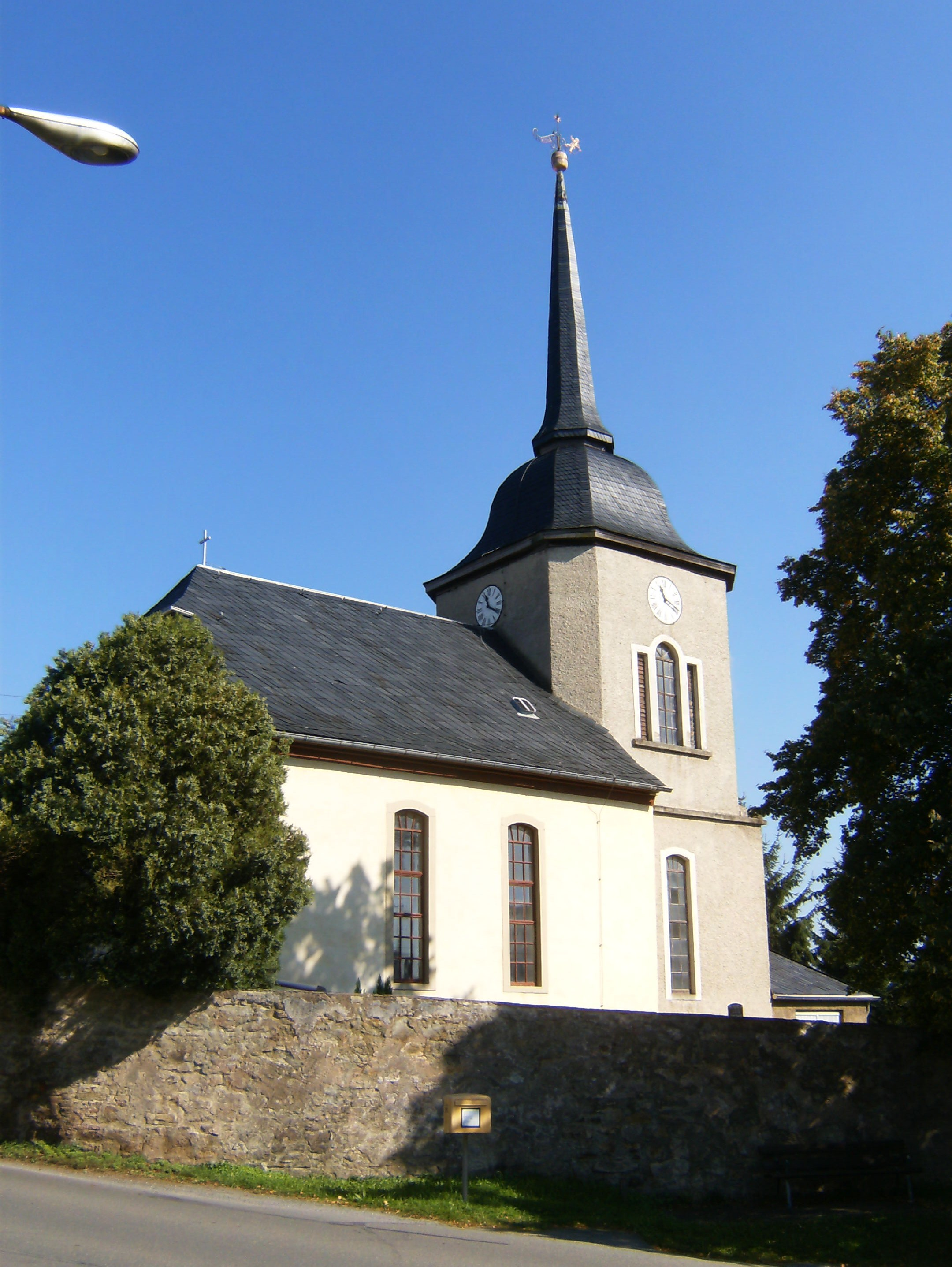 Church in Pörsdorf (a district of Kraftsdorf in Landkreis Greiz (Thuringia)).